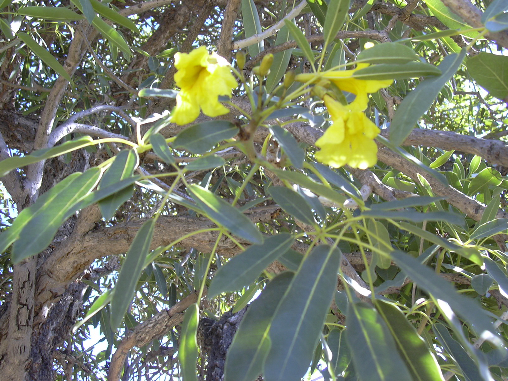 Tabebuia aurea (flower). Location: Maui, MCC Kahului